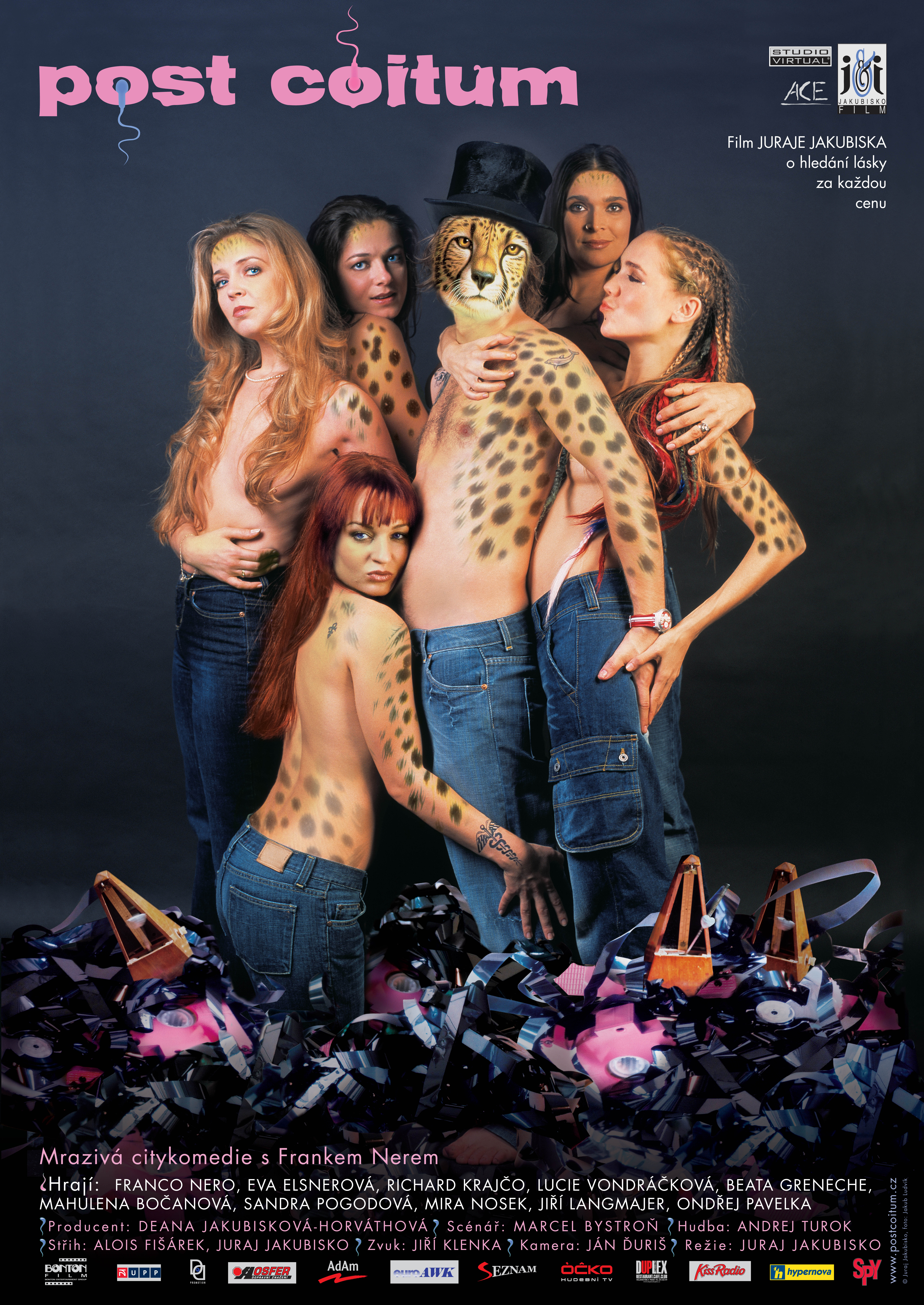 Official poster for the movie Post Coitum